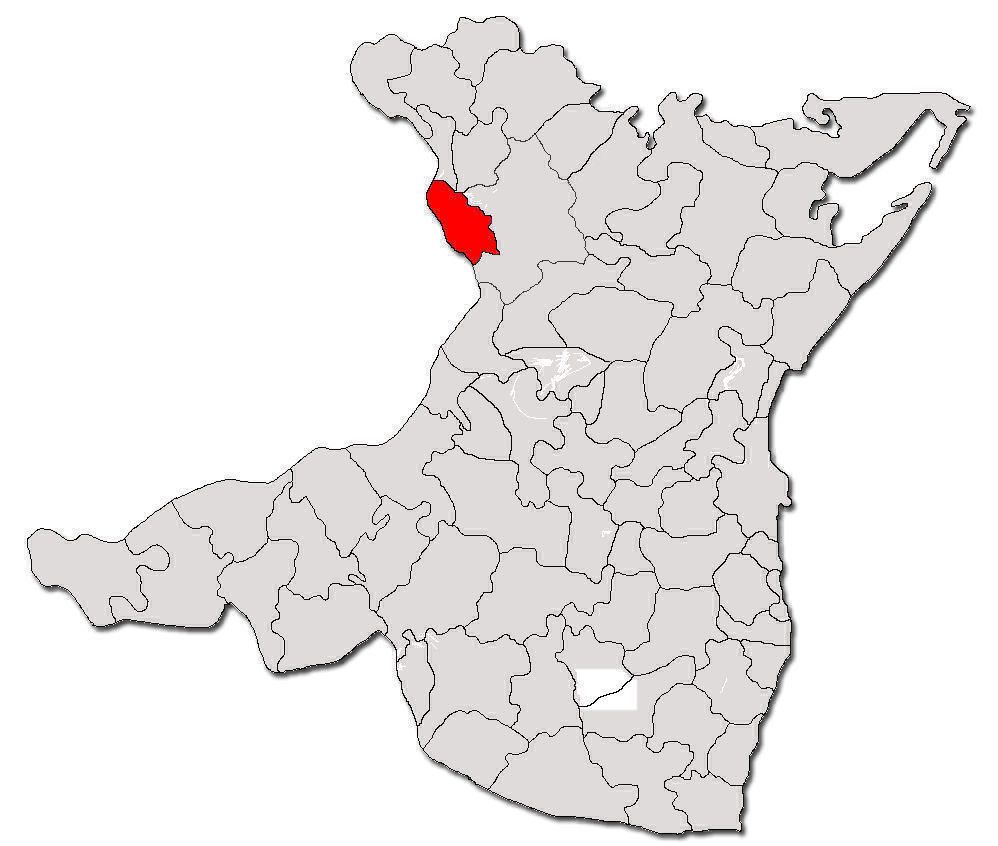 Contour of Kogalniceanu commune